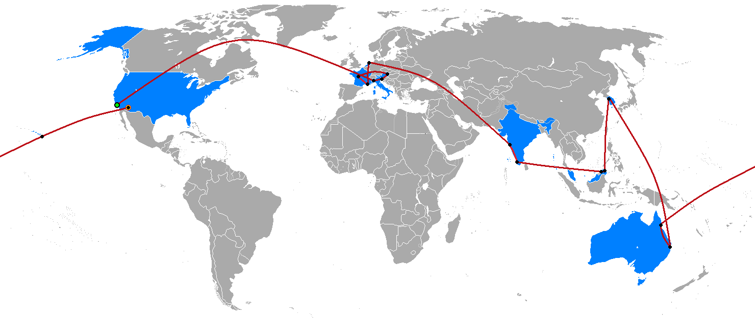 The Route Map of The Amazing Race 4, recreated with black dot leg stops